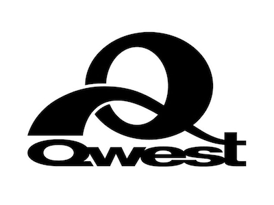 The last logo of Qwest Records